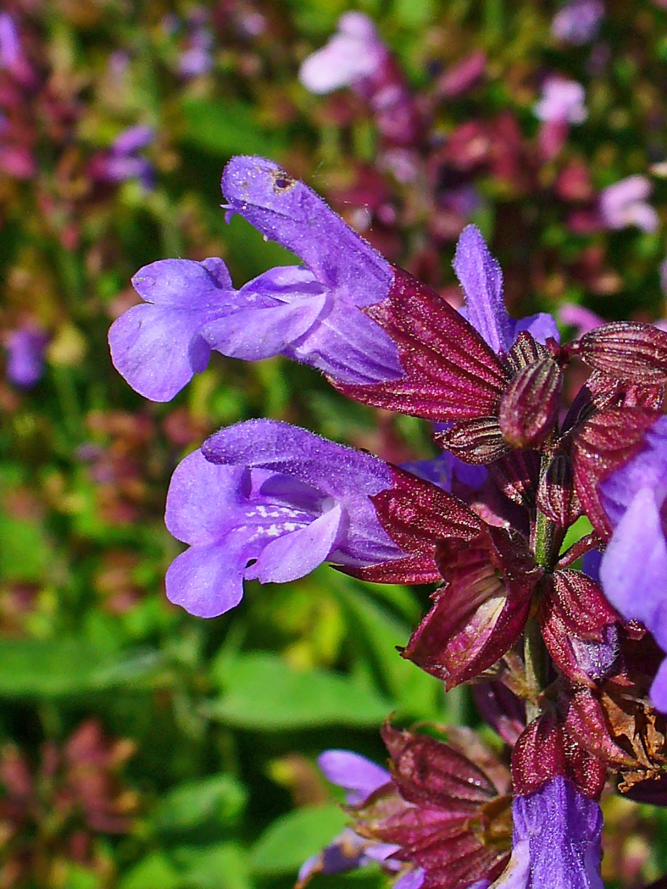 Salvia officinalis, Lamiaceae, Garden Sage, Common Sage, flowers. Botanical Garden KIT, Karlsruhe, Germany.